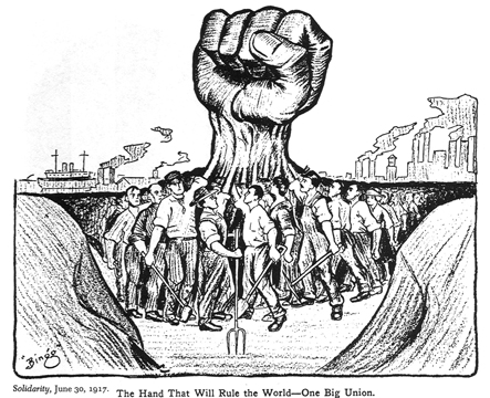 Cartoon published in the Industrial Workers of the World (IWW) journal Solidarity on June 30, 1917.